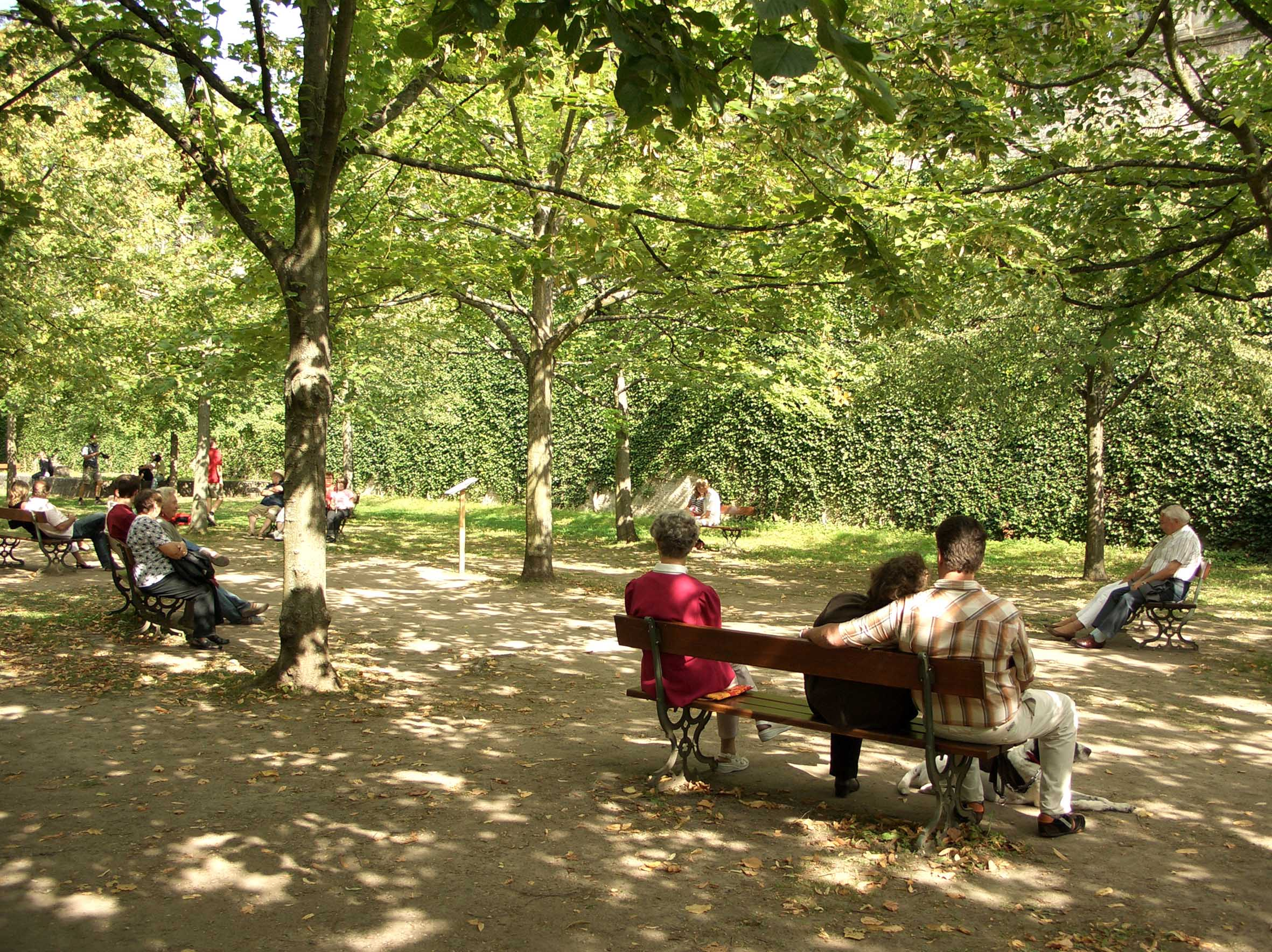 Soundgaden in the Hofgarten of the Residenz - 2006